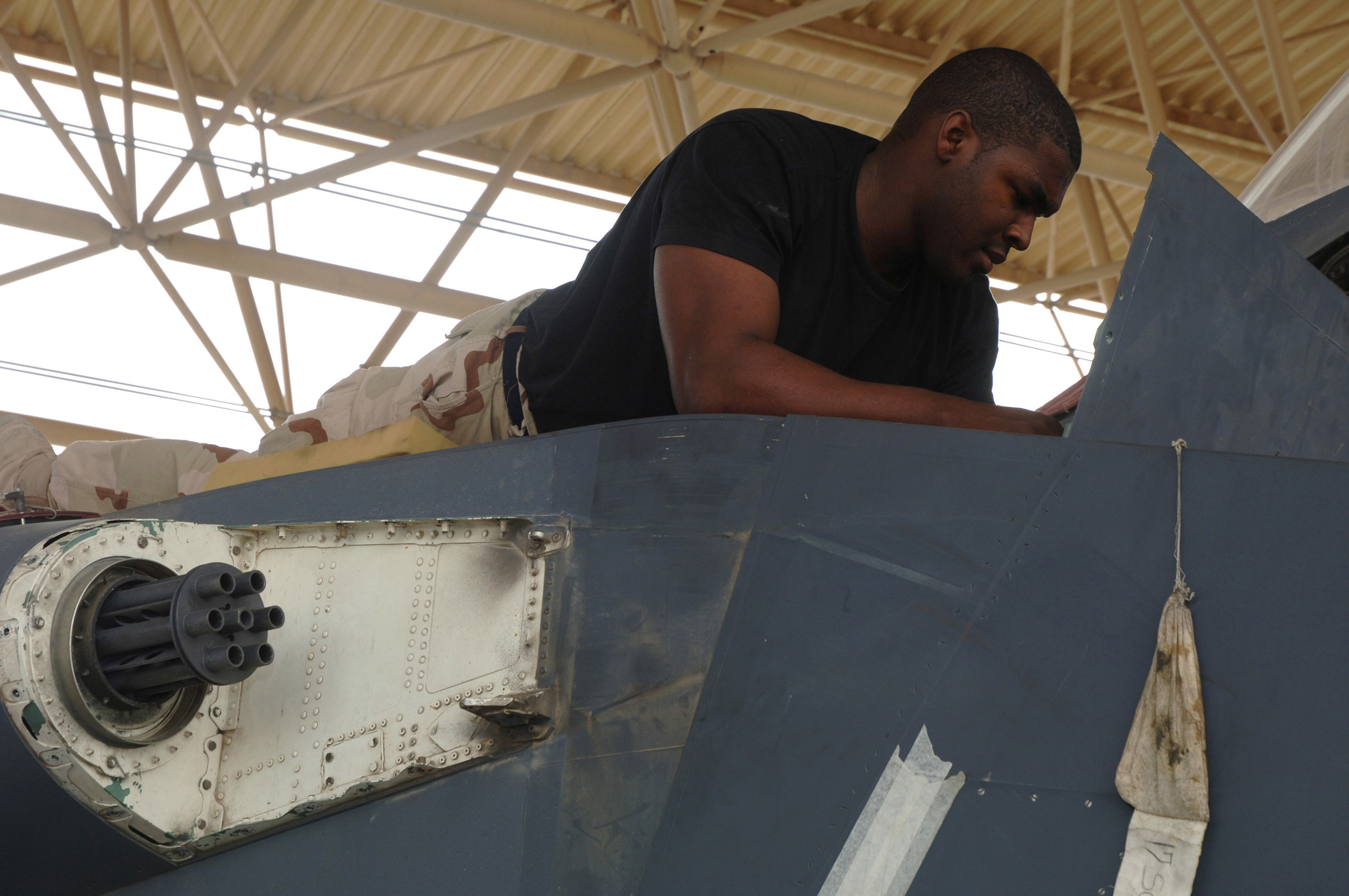 An Airman with the 379th Expeditionary Aircraft Maintenance Squadron inspects an F-15E Strike Eagle at a forward-deployed location in Southwest Asia, on Wednesday, April 5, 2006. The F-15E is a dual-role fighter designed to perform air-to-air and air-to-ground missions. It is deployed from Seymour Johnson Air Force Base, N.C. (U.S. Air Force photo/Staff Sgt. Joshua Strang)